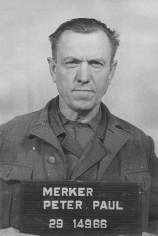 Peter Paul Merker (22.09.1891 - ?), SS-Oberscharführer, Kommandoführer im Gustloff-Werk II. In the Buchenwald Camp Trial (part of the Dachau Trials) he was sentenced to death by hanging